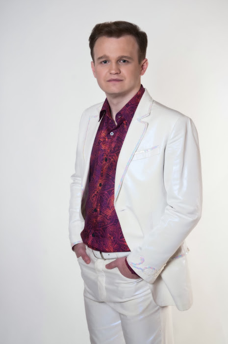 Yaremchuk Nazariy